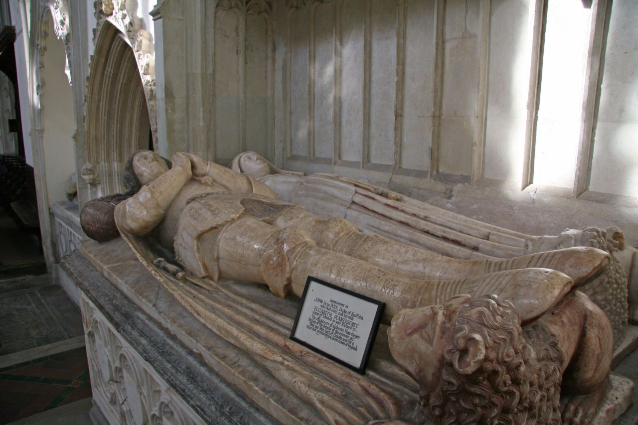 St Andrew's church Wingfield Suffolk. Effigies of John de la Pole, 2nd Duke of Suffolk (1442-1492), KG, of Wingfield Castle, and his wife Elizabeth of York (1444-c.1503) (also known as Elizabeth Plantagenet), a daughter of Richard Plantagenet, 3rd Duke of York (a great-grandson of King Edward III) and a sister of King Edward IV and of King Richard III.